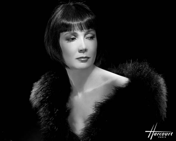 Sabine Azéma photographed by Studio Harcourt Paris